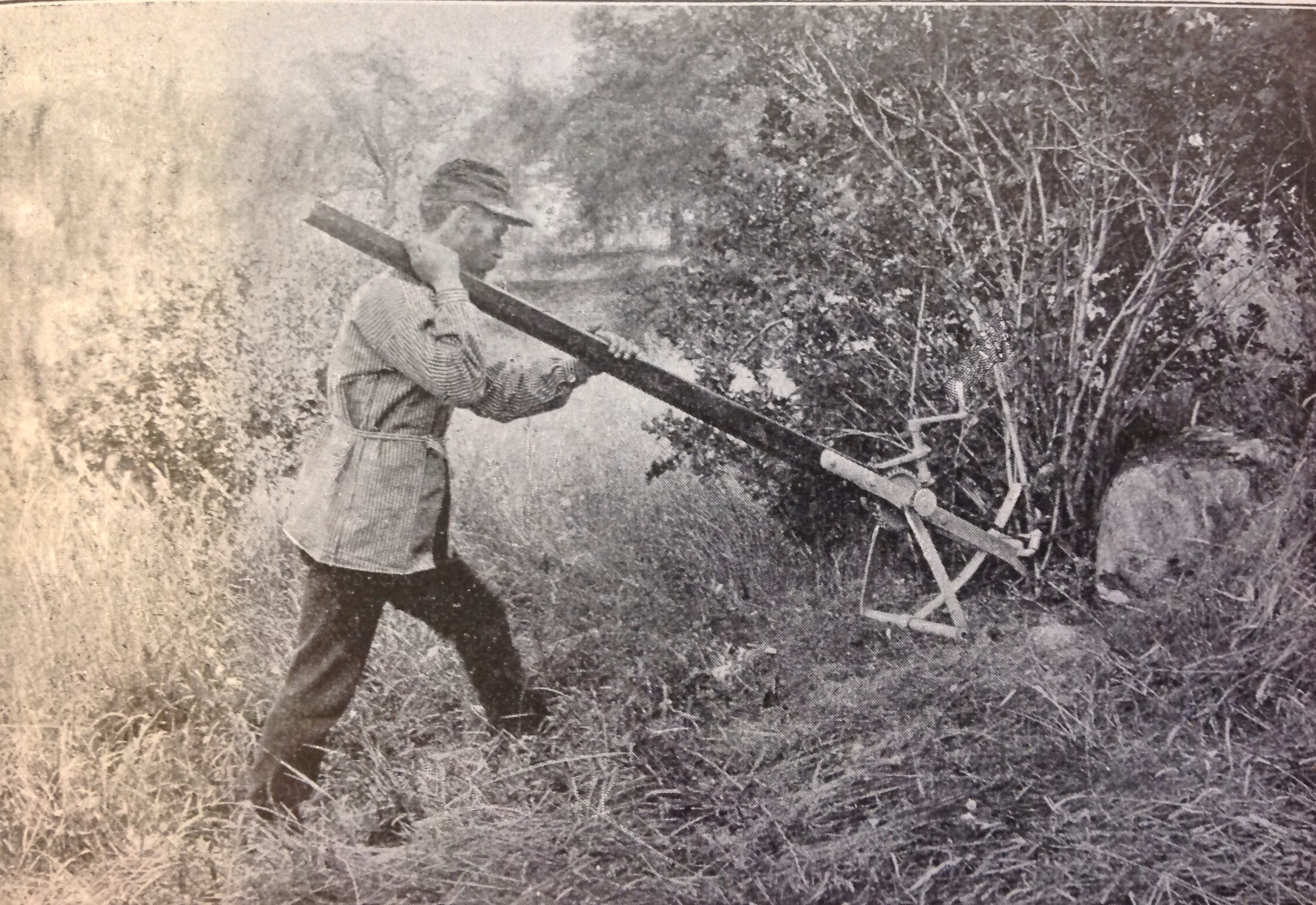 The agrarian toll "Berberisrödjare", used to remove Berberis vulgaris